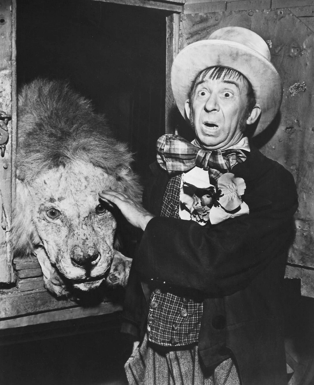 Photo of Roscoe Ates as Ike Wayfish from the American film Chad Hanna (1940).